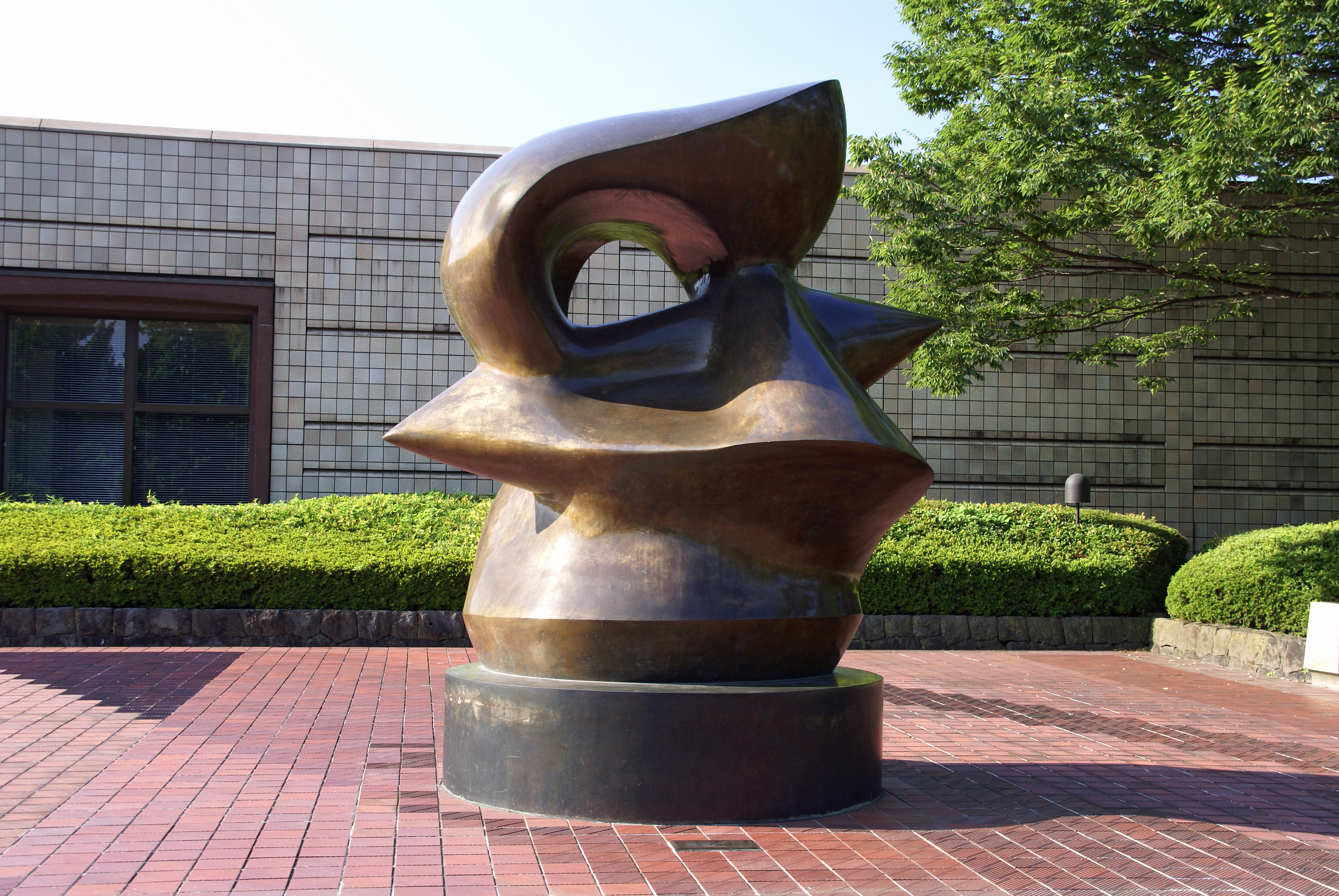 The Miyagi Museum of Art in Sendai, Miyagi prefecture, Japan